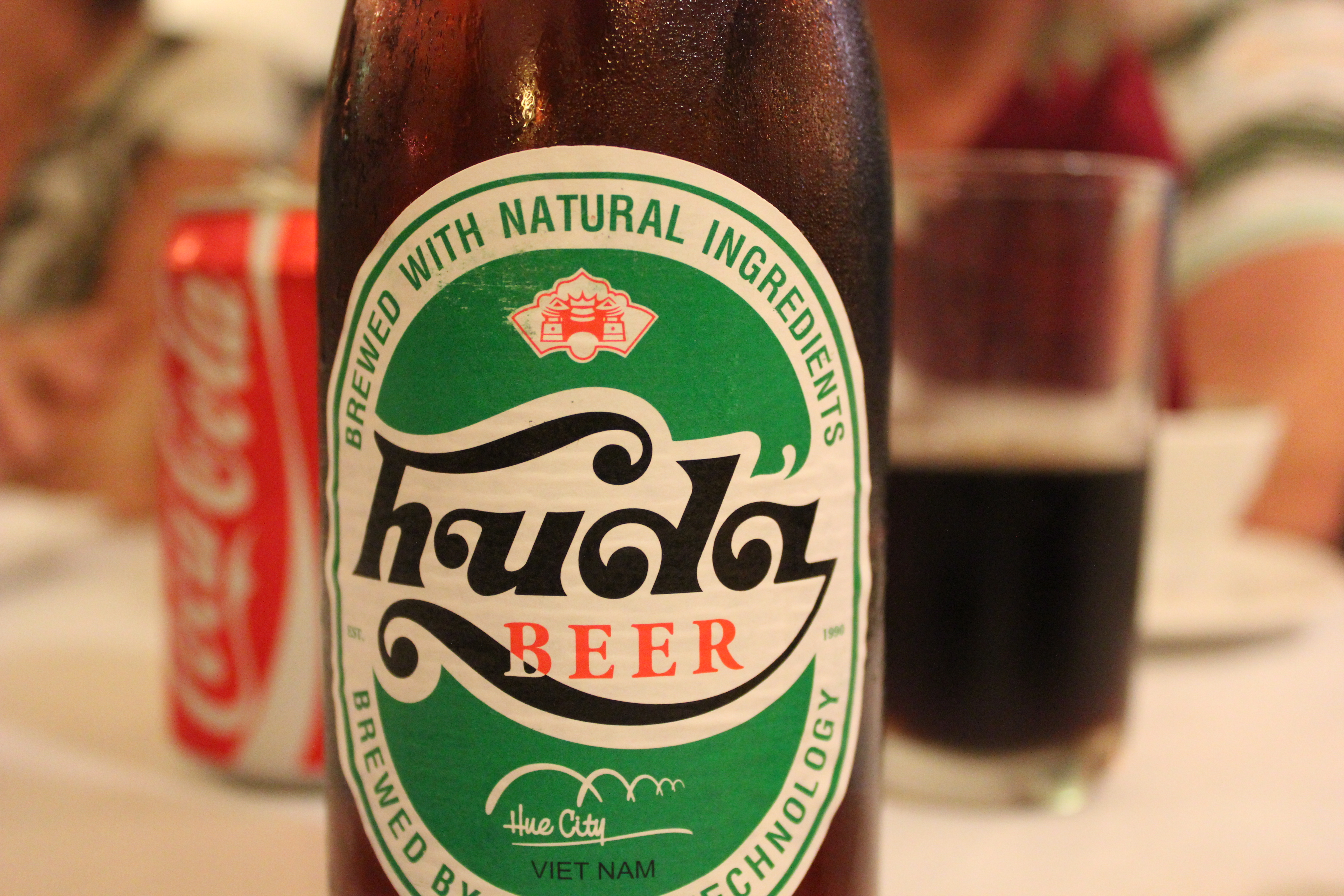 Cold bottle of Huda beer.